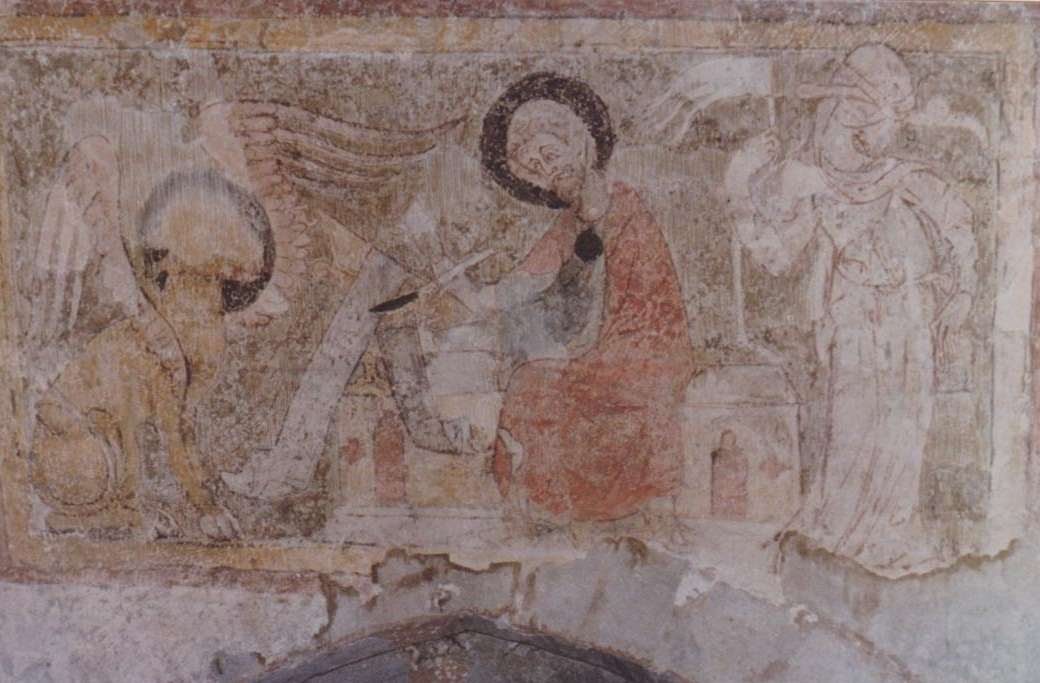 Saint-Luc et la Synagogue. Fresque chœur de l'église Notre-Dame d'Aigueperse, Puy-de-dôme, Auvergne.